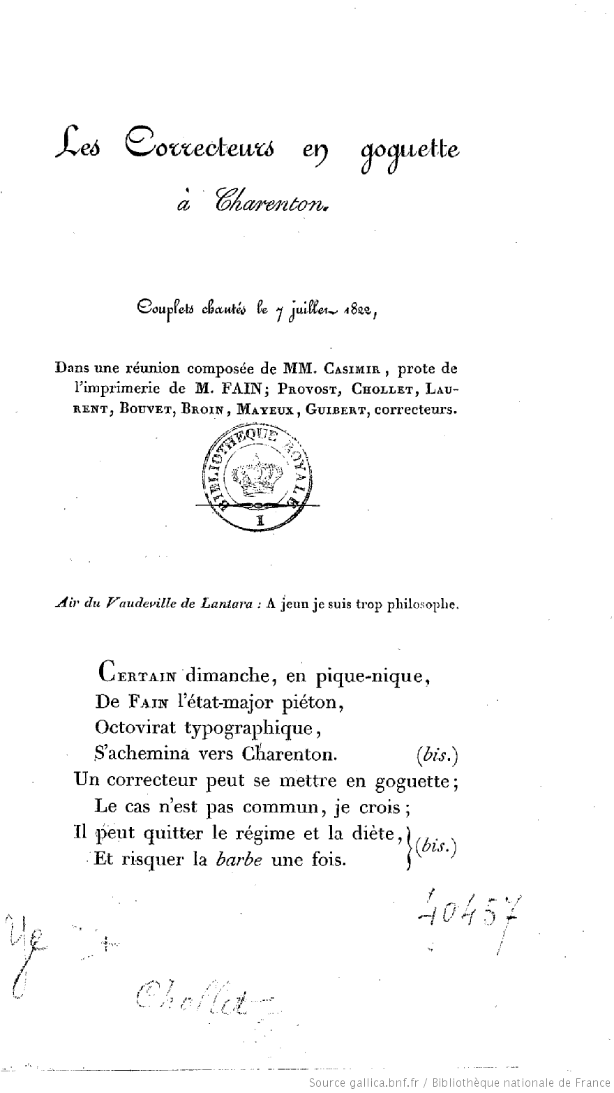 Première page sur quatre d'une chanson créée le 7 juillet 1822.